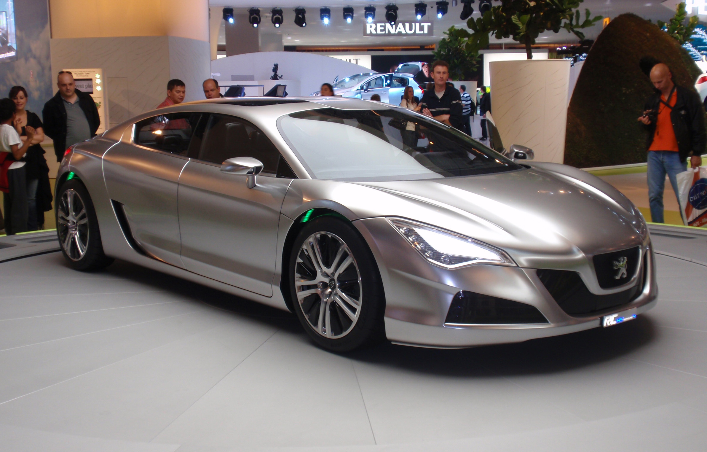 Peugeot RC HYmotion4 at the 2008 Paris Motor Show